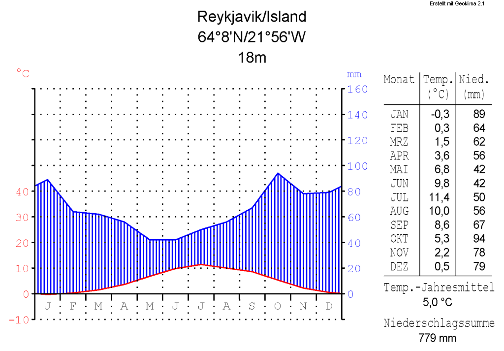 climate chart in the format by Walter and Lieth, metric, °Celsisus and millimeters, made with Geoklima 2.1